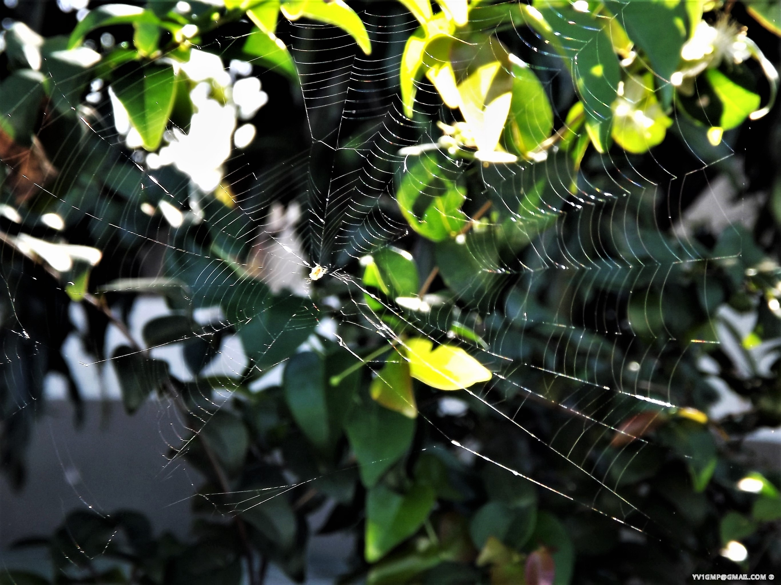 Cobweb on the branches of a garden